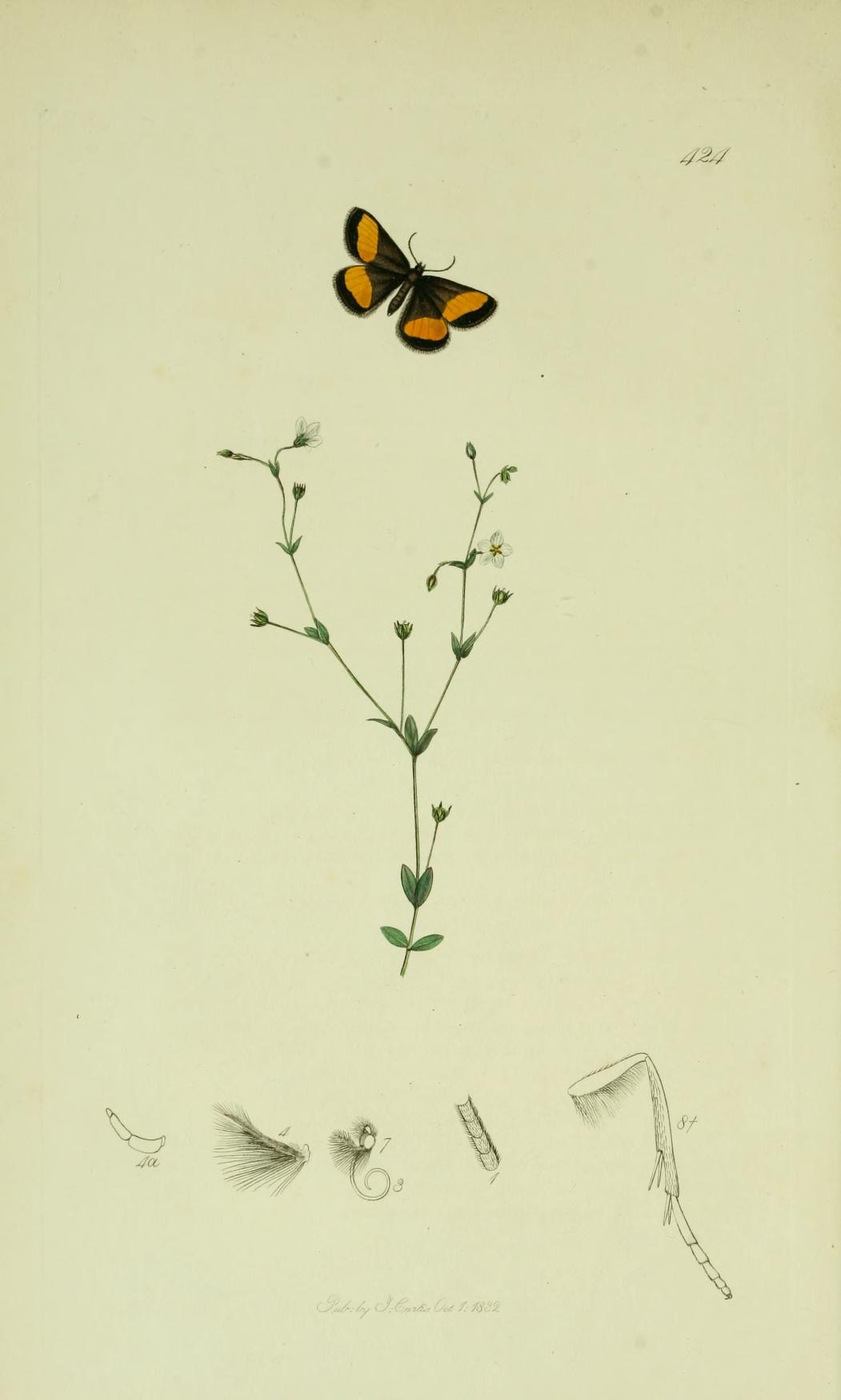 An illustration from British Entomology by John Curtis. Psodos equestrata (Gold Four-spot Moth. Specimen “from Mr. Plastead’s cabinet” Cf. the montane mainland-European P. quadrifaria).